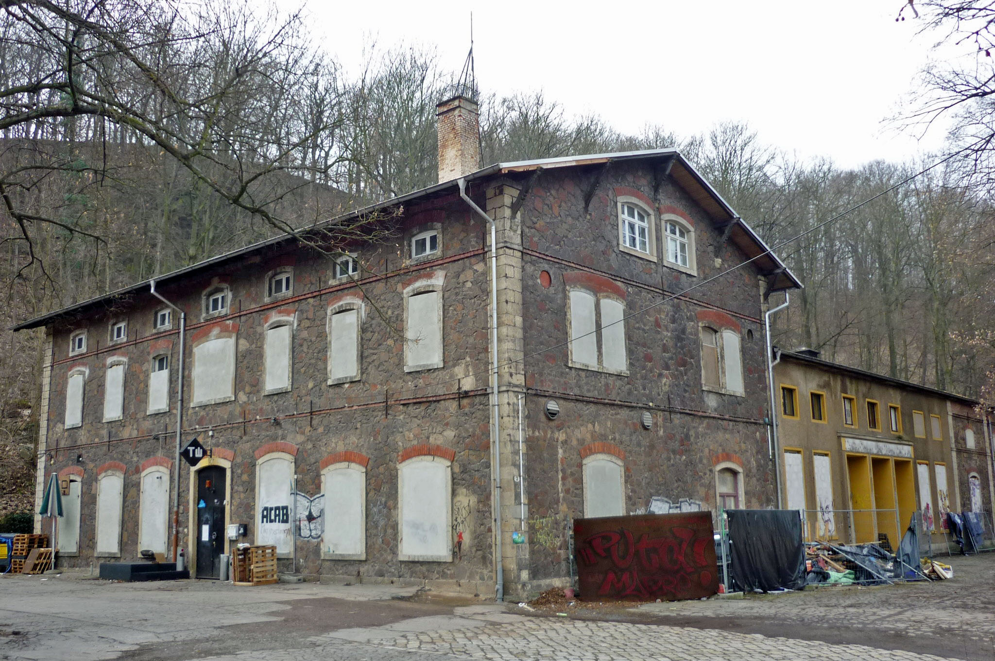 Coselweg 3 in Dresden's Coschütz borough. From 2002 to 2013 the techno club Triebwerk resided in the building.